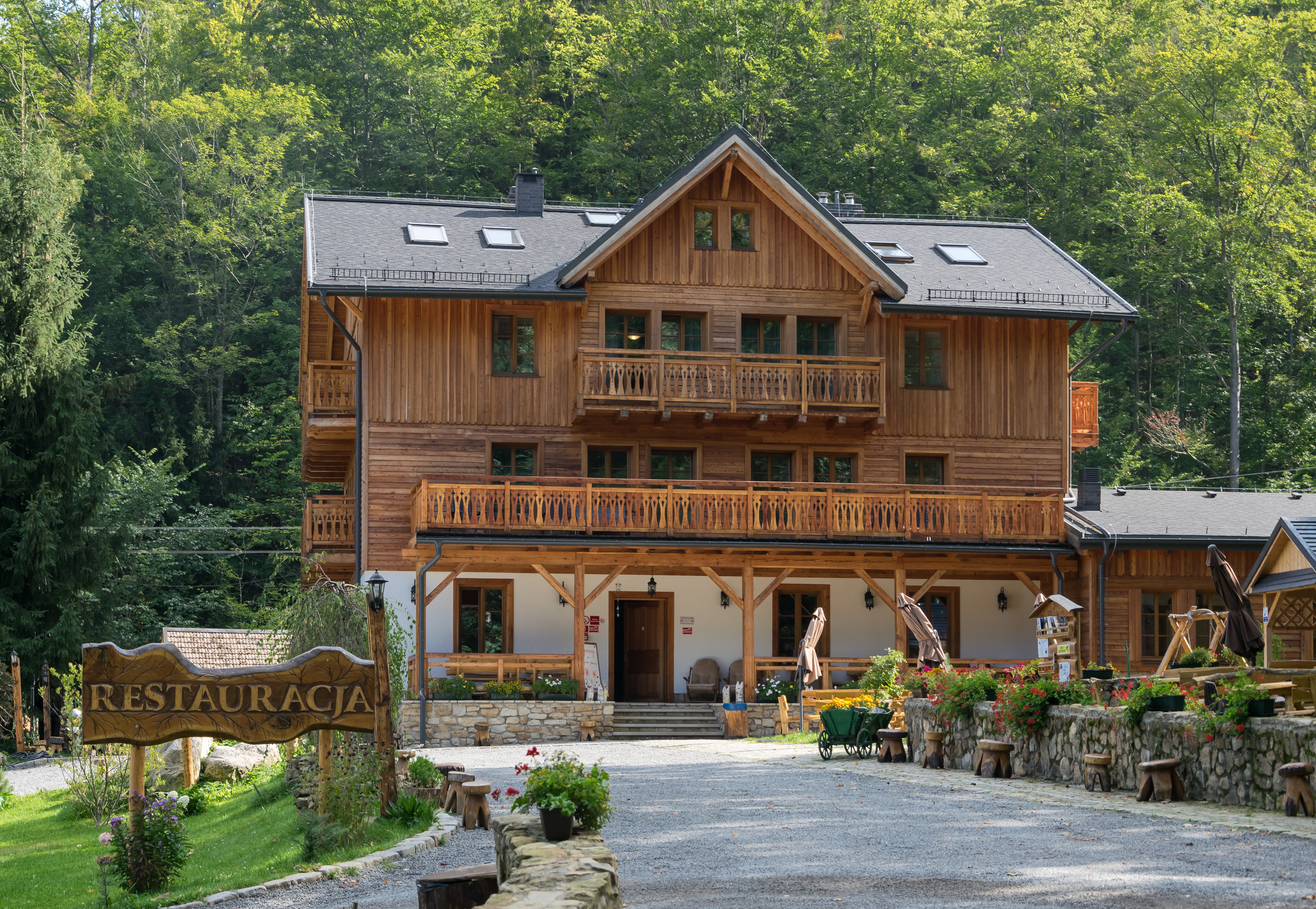 Orle Gniazdo pension in Szklary